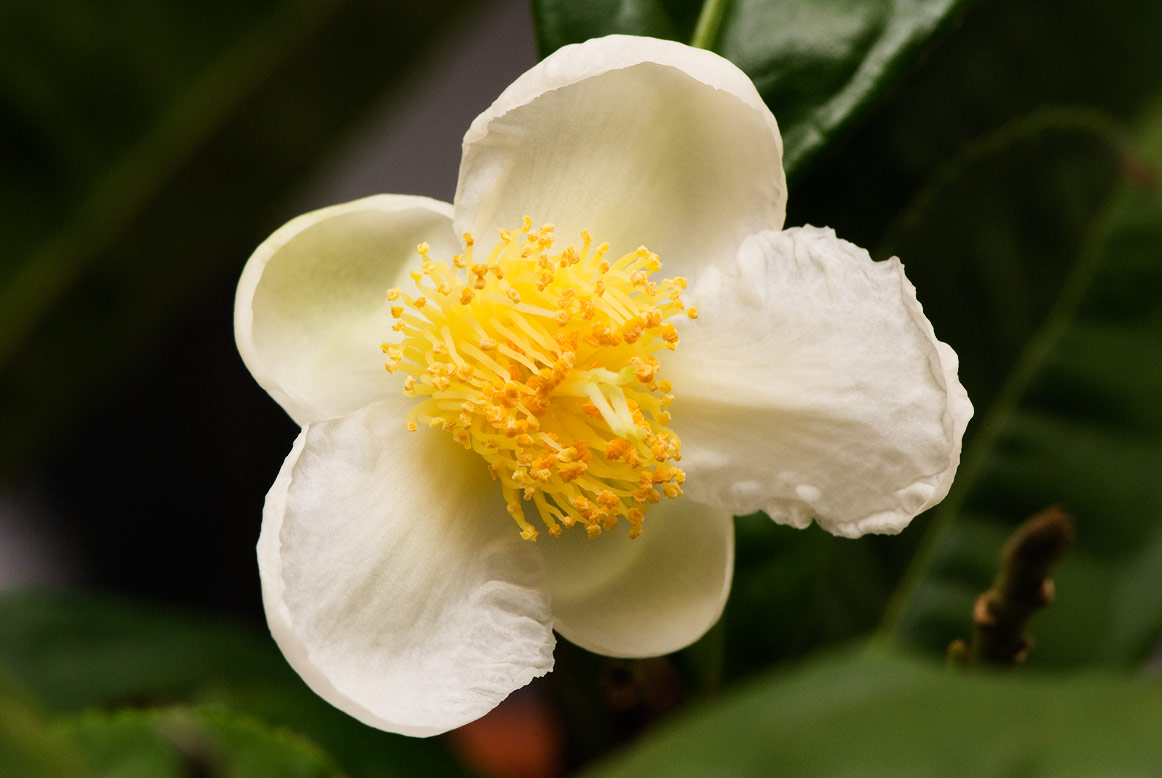 Flower of Camellia sinensis - diameter aprox 1.5 cm